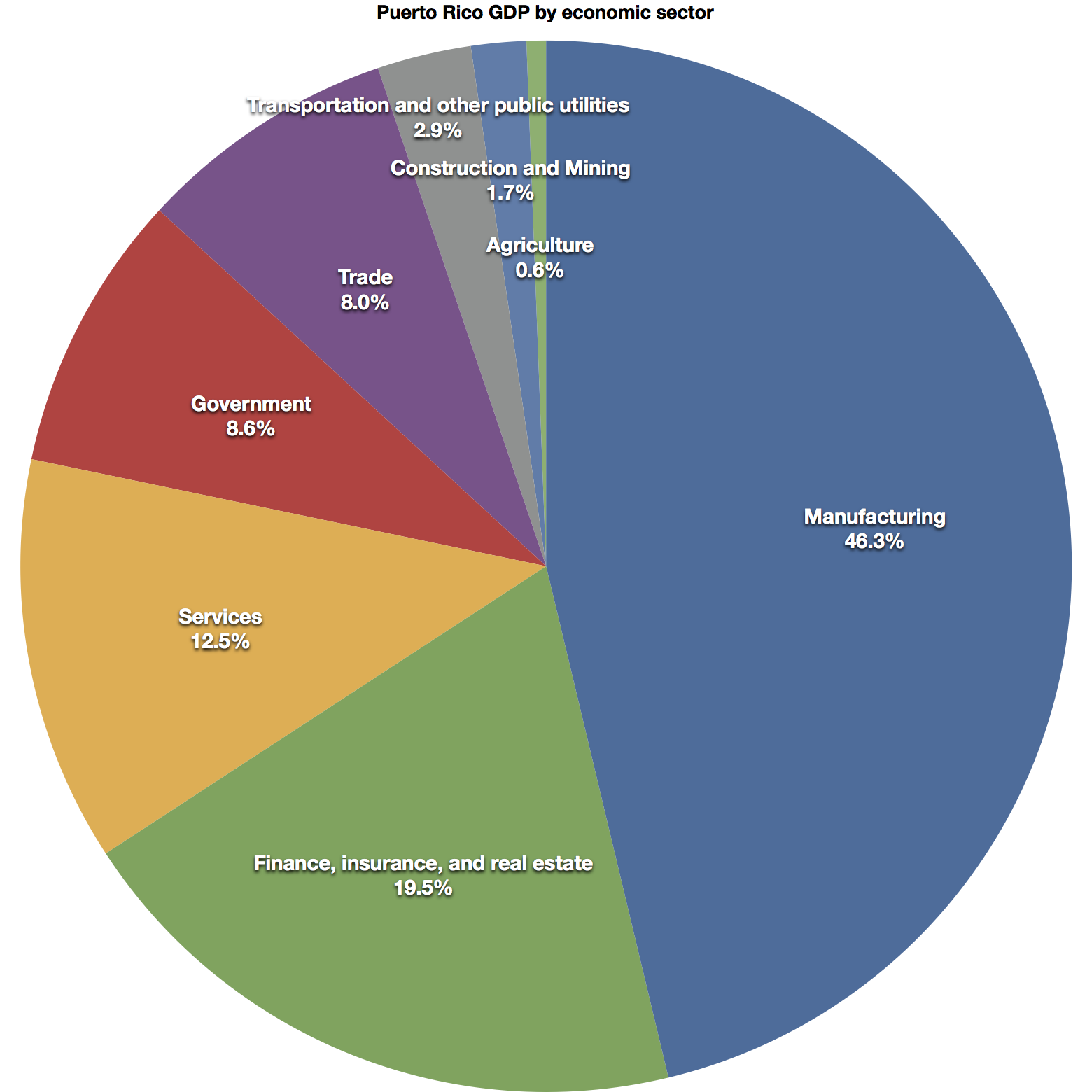 Puerto Rico gross domestic product by economic sector